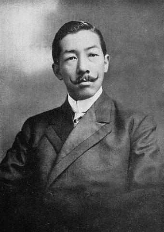 Kennosuke Shimazu